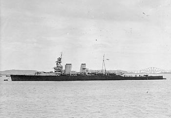 HMS FROBISHER moored in the Firth of Forth